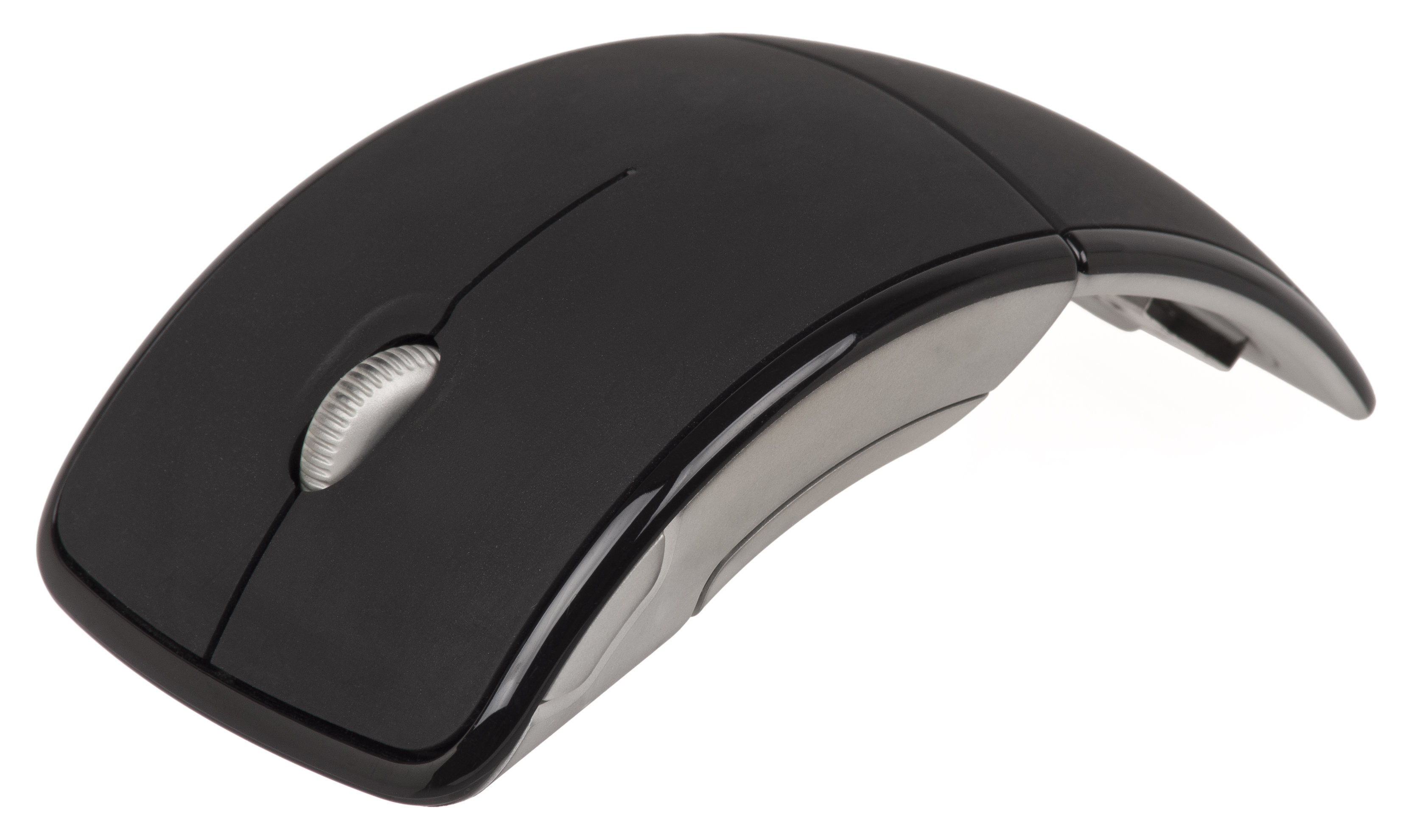 A Microsoft Arc wireless mouse. You can see the USB receiver attached to the inside of the handle.